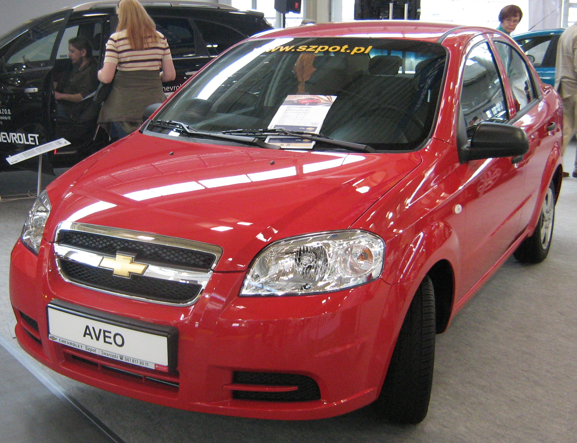 Chevrolet Aveo T250 sedan by FSO - PSM 2009 in Poznan.